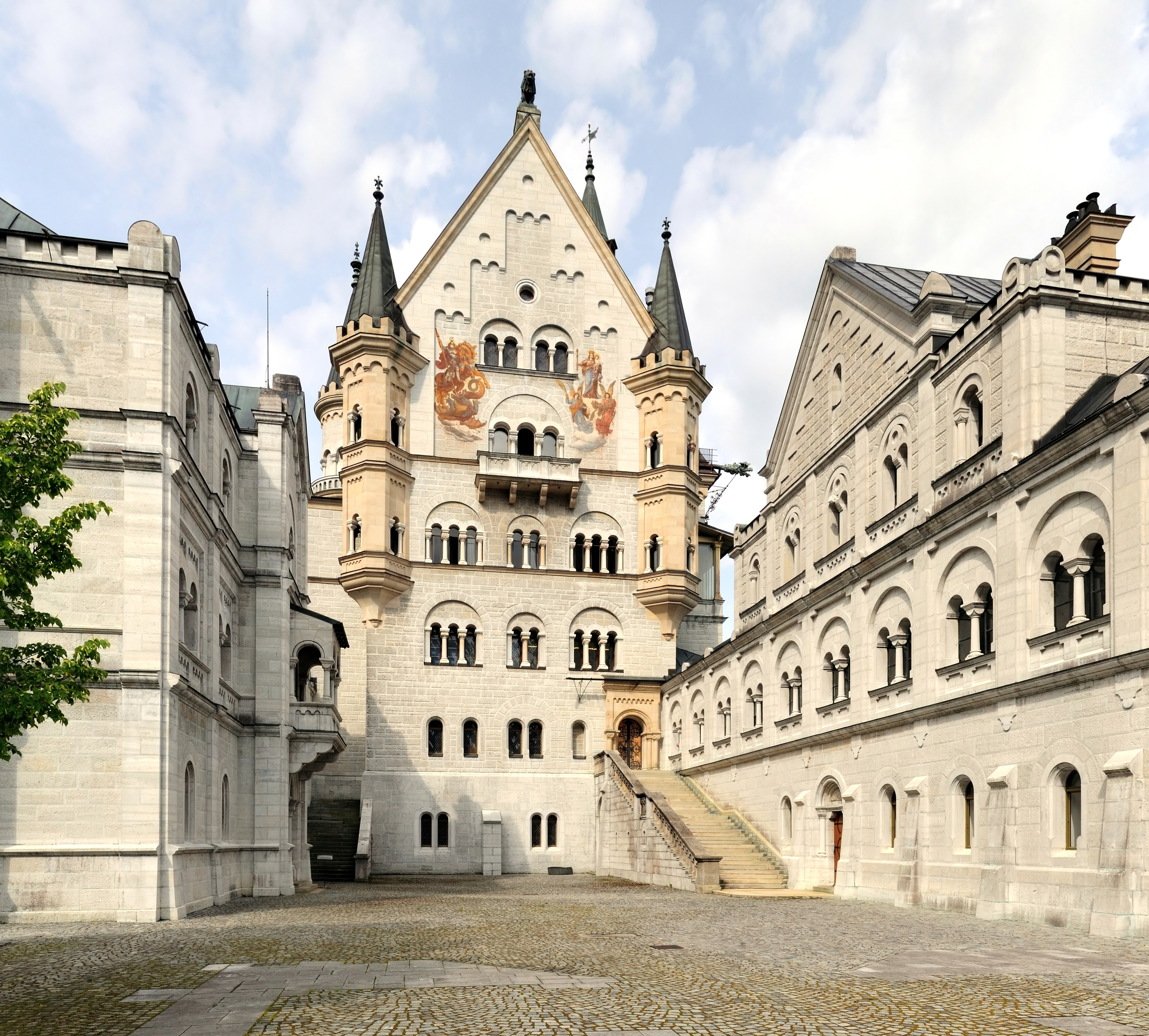 Castle Neuschwanstein, view from location of unrealized chapel along upper courtyard level: Bower (left), Palas front, and Knights' House (right)